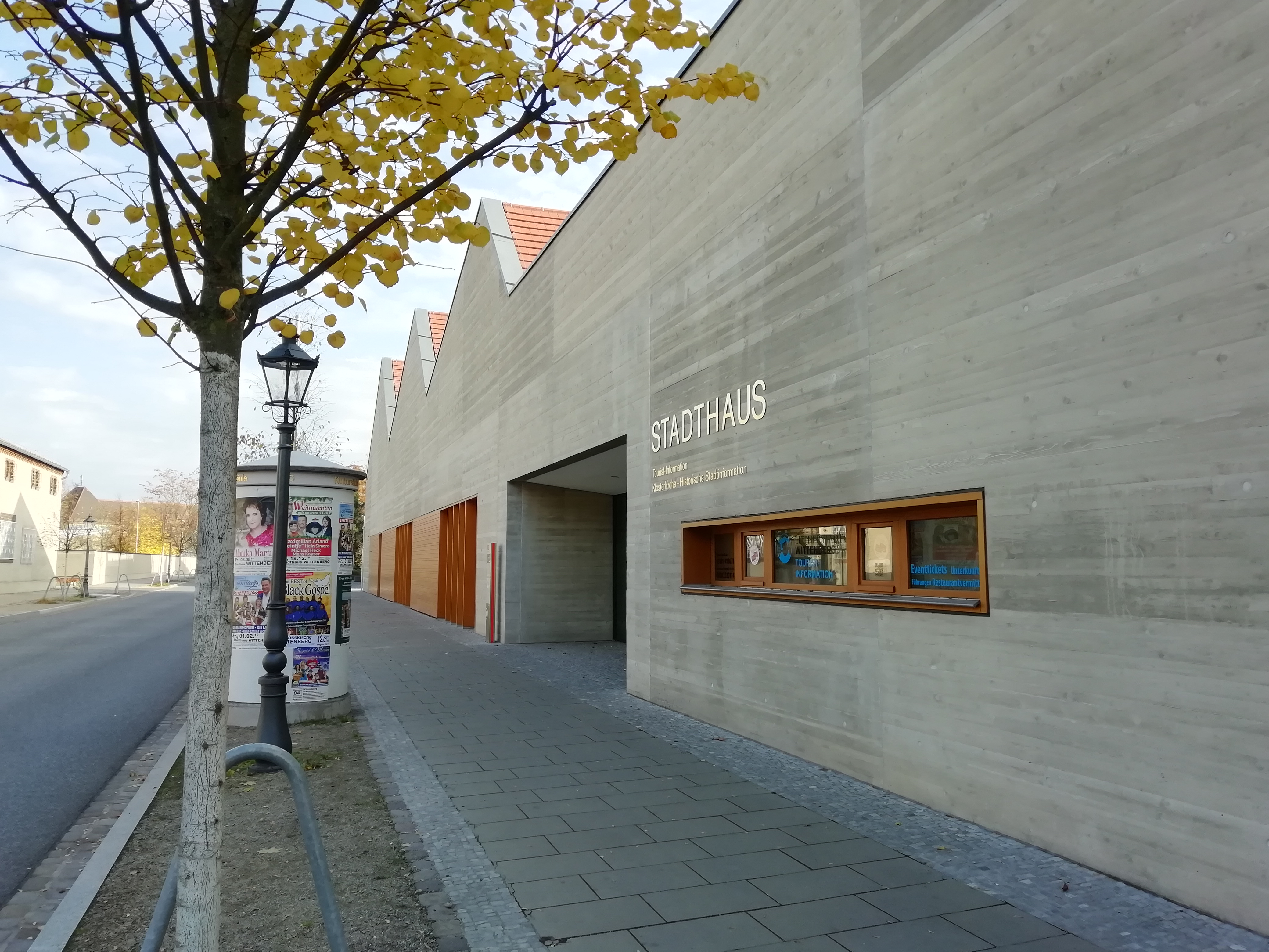 The Townhouse Wittenberg provides a modern, inspiring ambience for all sorts of events.